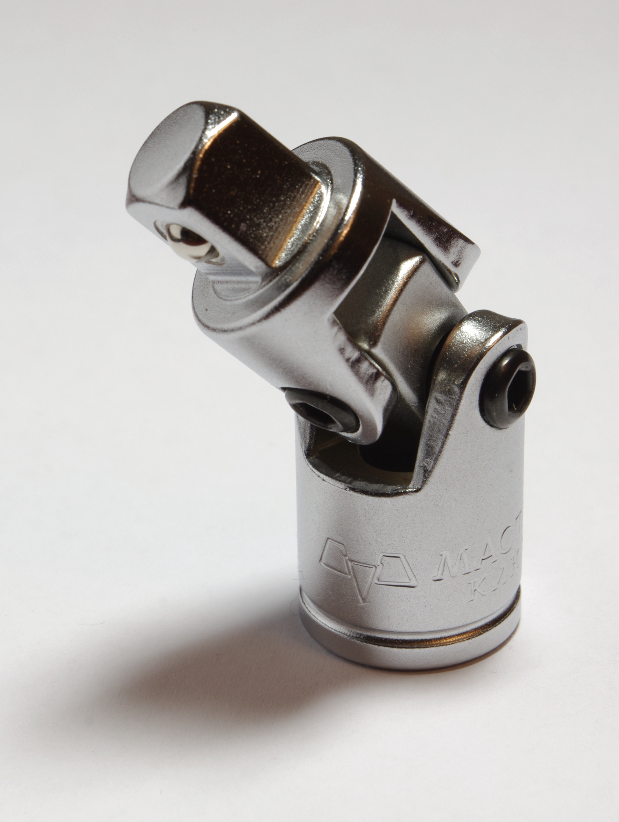 Universal joint 3/8" for socket wrench